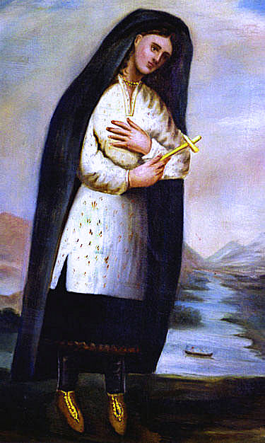 One of the oldest portraits of Saint Kateri Tekakwitha by father Claude Chauchetière around 1696